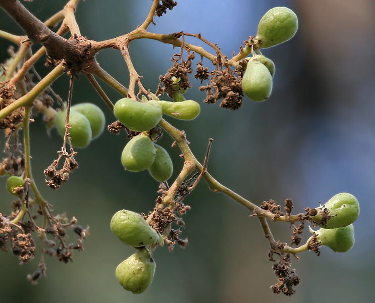 garuga, grey downy balsam, pama, jum, kapila, dumi, kaked, khusimb, kharpat, aranelli, biligadde, kaashthanelli, kudak, annakaara, kaattunelli, kakad, bungbu tuairam, dabdabe, kekadogatcho, karnikarha, kinikirath, dapdapay, arunelli, karuvempu or konda vepa Garuga pinnata in Kinnerasani Wildlife Sanctuary, Andhra Pradesh, India.